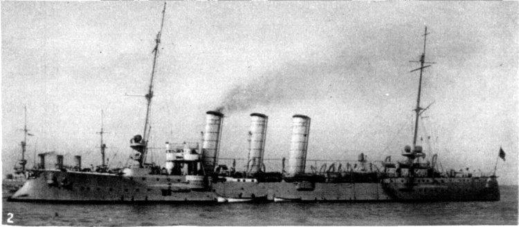 photograph of a Bremen class light cruiser.